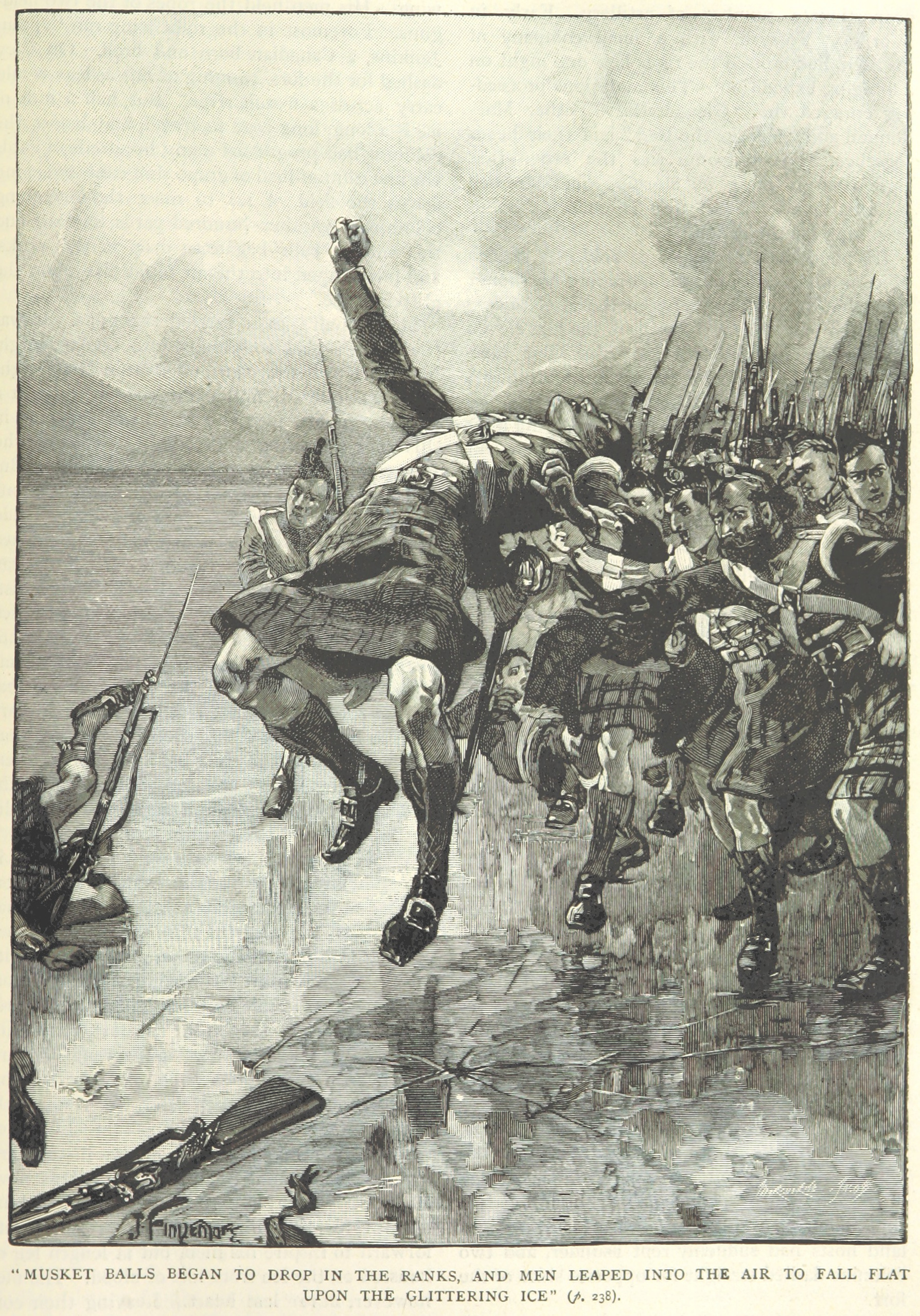 The Glengarry Light Infantry attacks across the frozen river at the 1813 Battle of Ogdensburg.